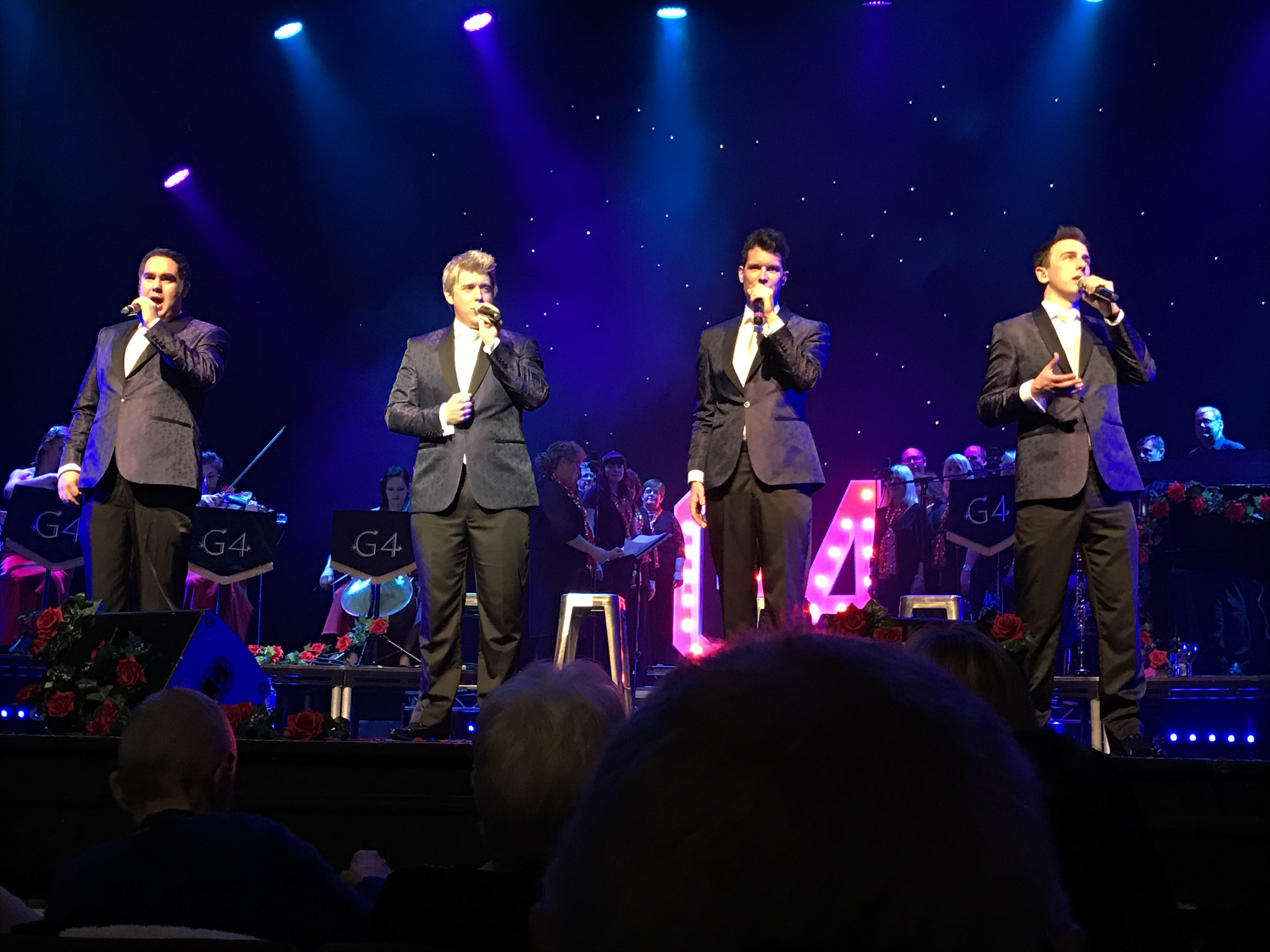 G4 in Weymouth Pavilion on their 'Live In Concert Tour'